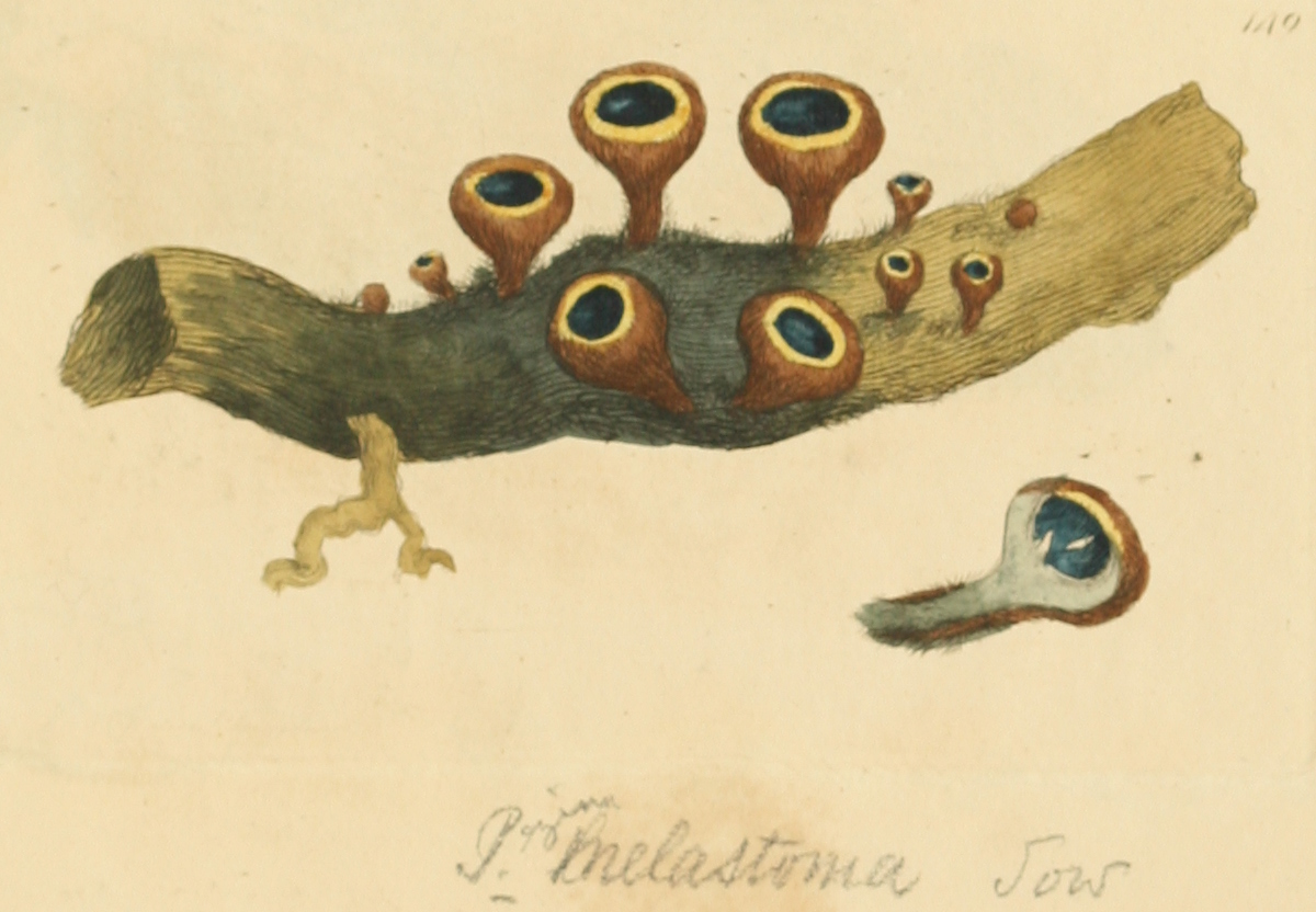 This is a plate from James Sowerby's Coloured Figures of English Fungi or Mushrooms.